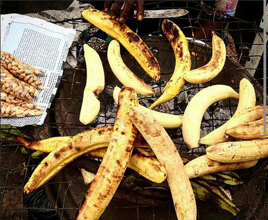 Boli is a roasted plantain eaten with groundnut. Eaten widely in Nigeria This is an image of food from Nigeria